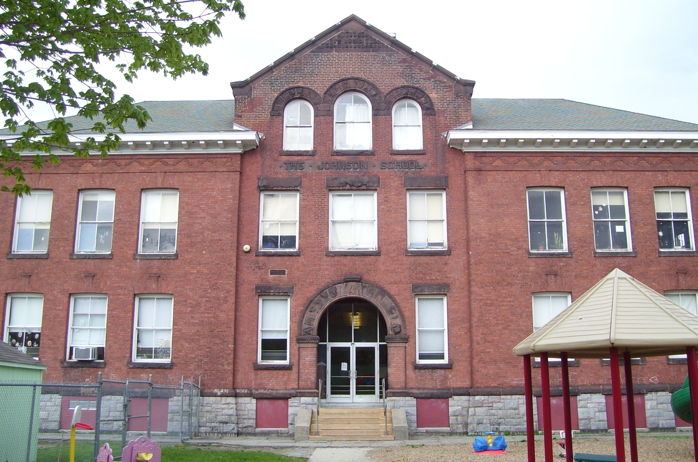 The Johnson School is a historic school located on School Street between Williams and Cady Streets in the Amity Square neighborhood of North Adams, Massachusetts. It was built in 1898 and was designed by Edwin Thayer Barlow in the Romanesque Revival style. The school was one of the last neighborhood school in North Adams to be closed, and is now used for Head Start and other social programs. The Johnson School building was added to the National Register of Historic Places in 1985.